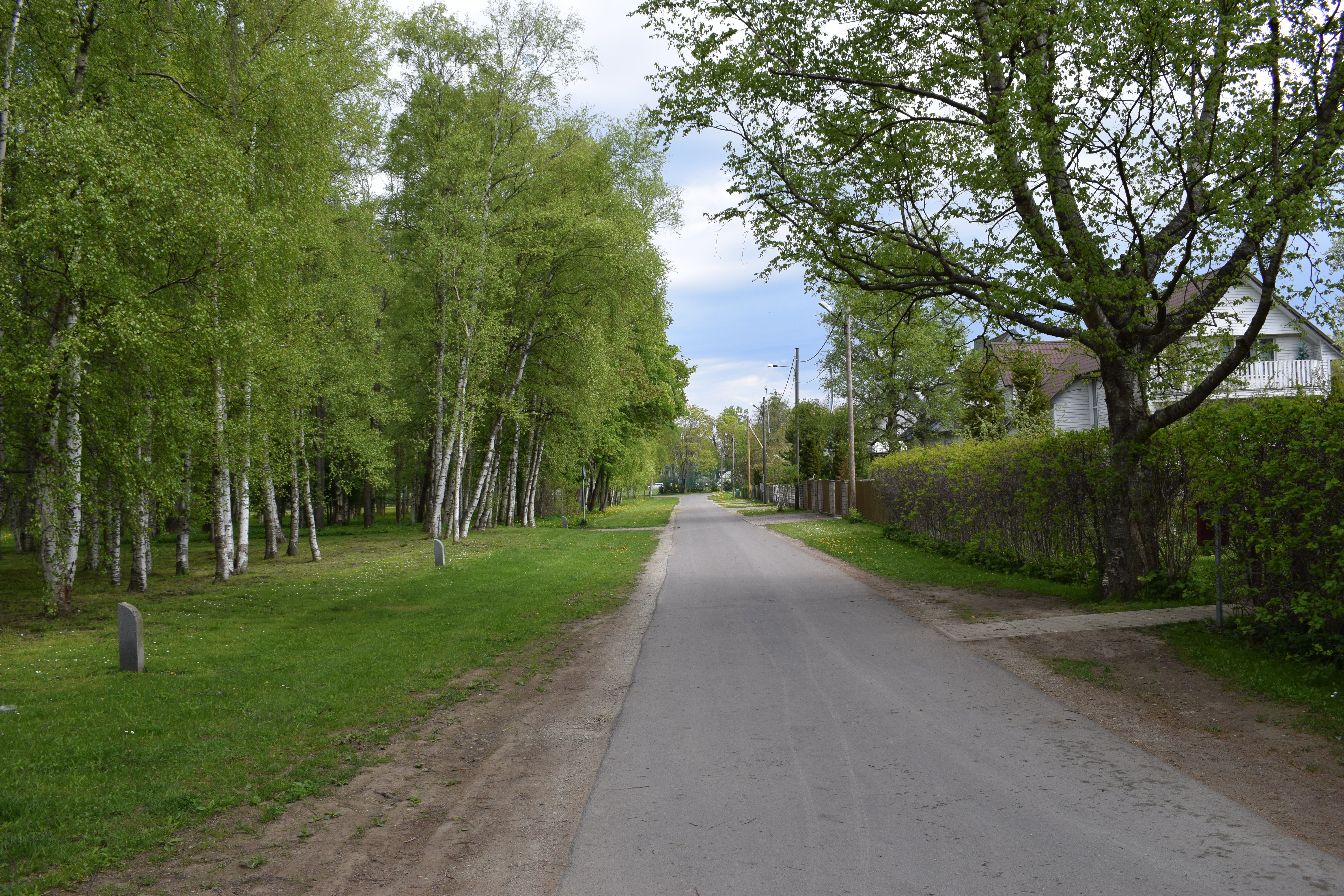 Lepa põik